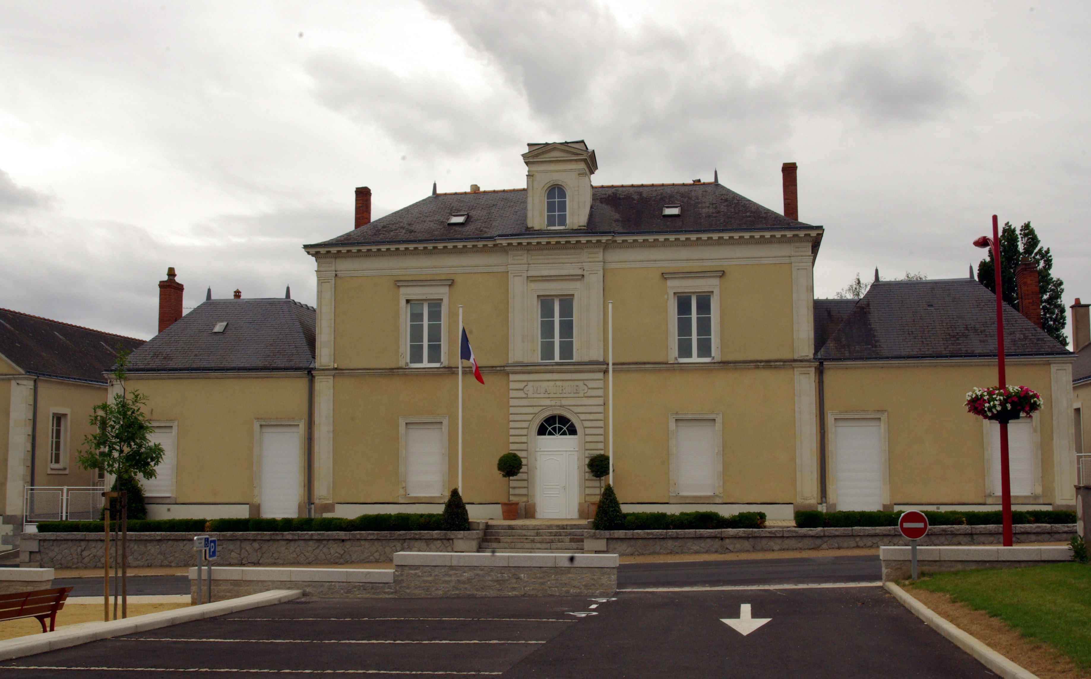 City Hall of Bécon-les-Granits